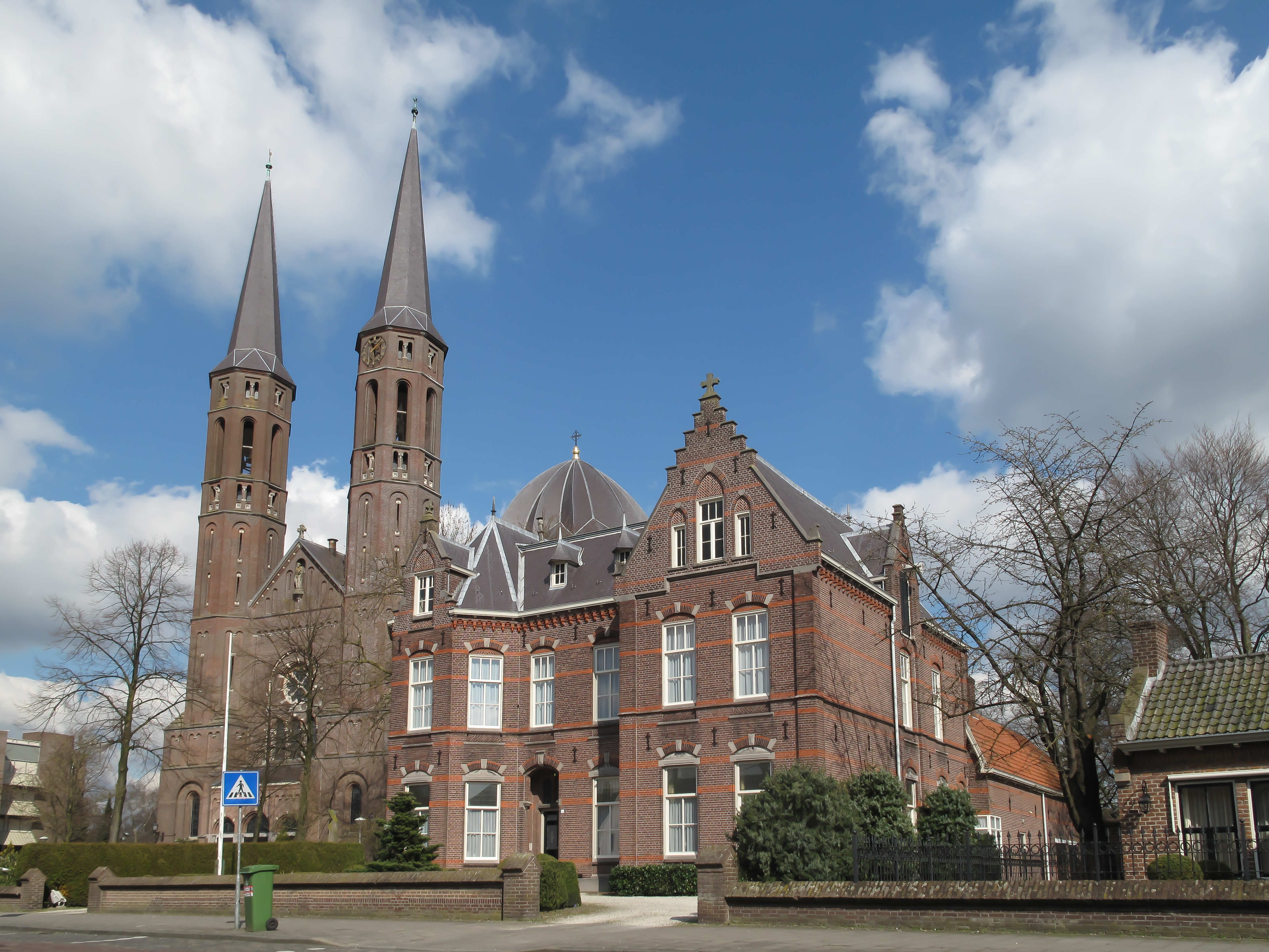 Uden, church: de Sint Petruskerk